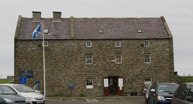 Tormiston Mill, Mainland, Orkneys, Scotland